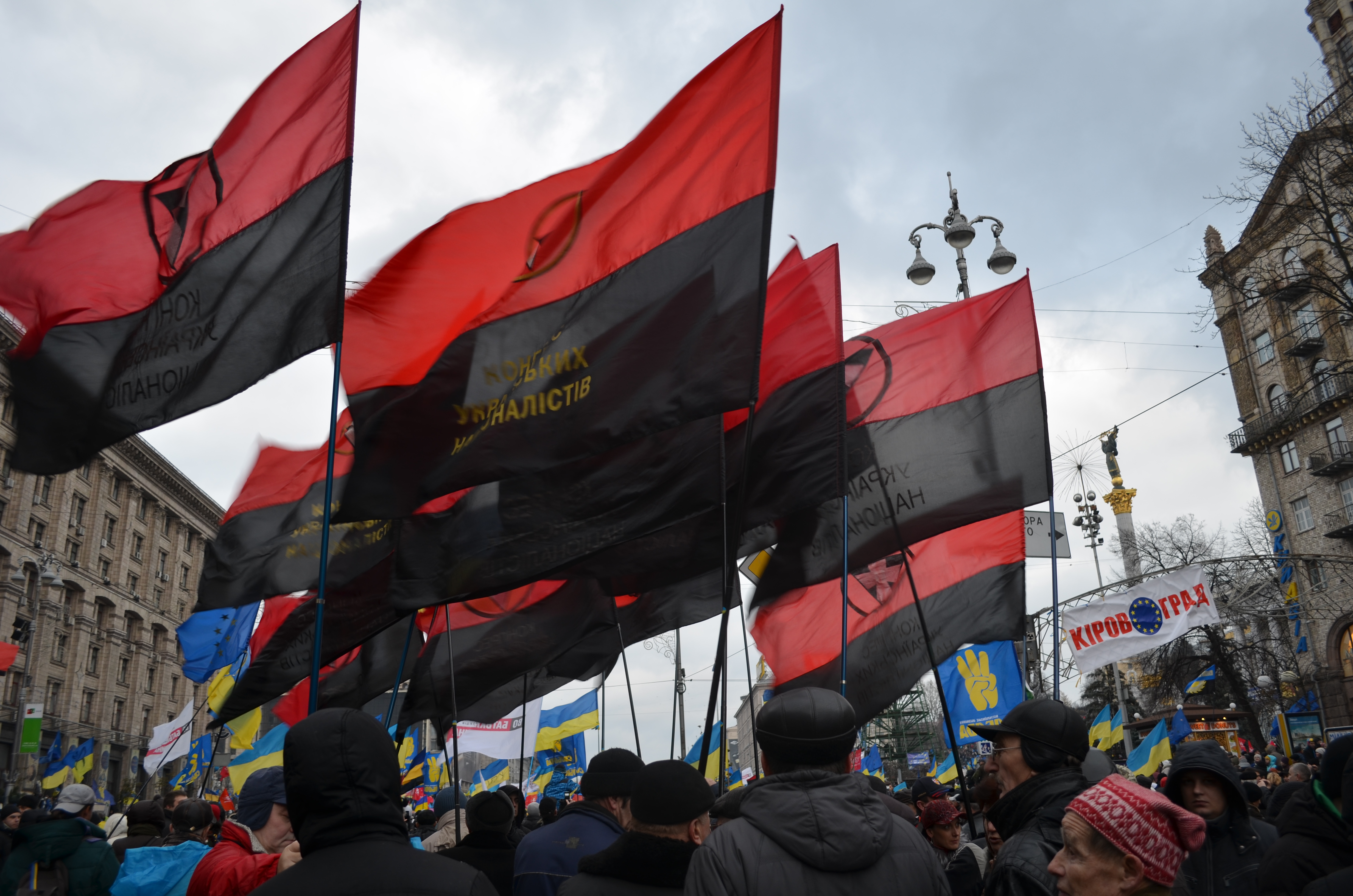 Euromaidan in Kyiv 01/DEC/13